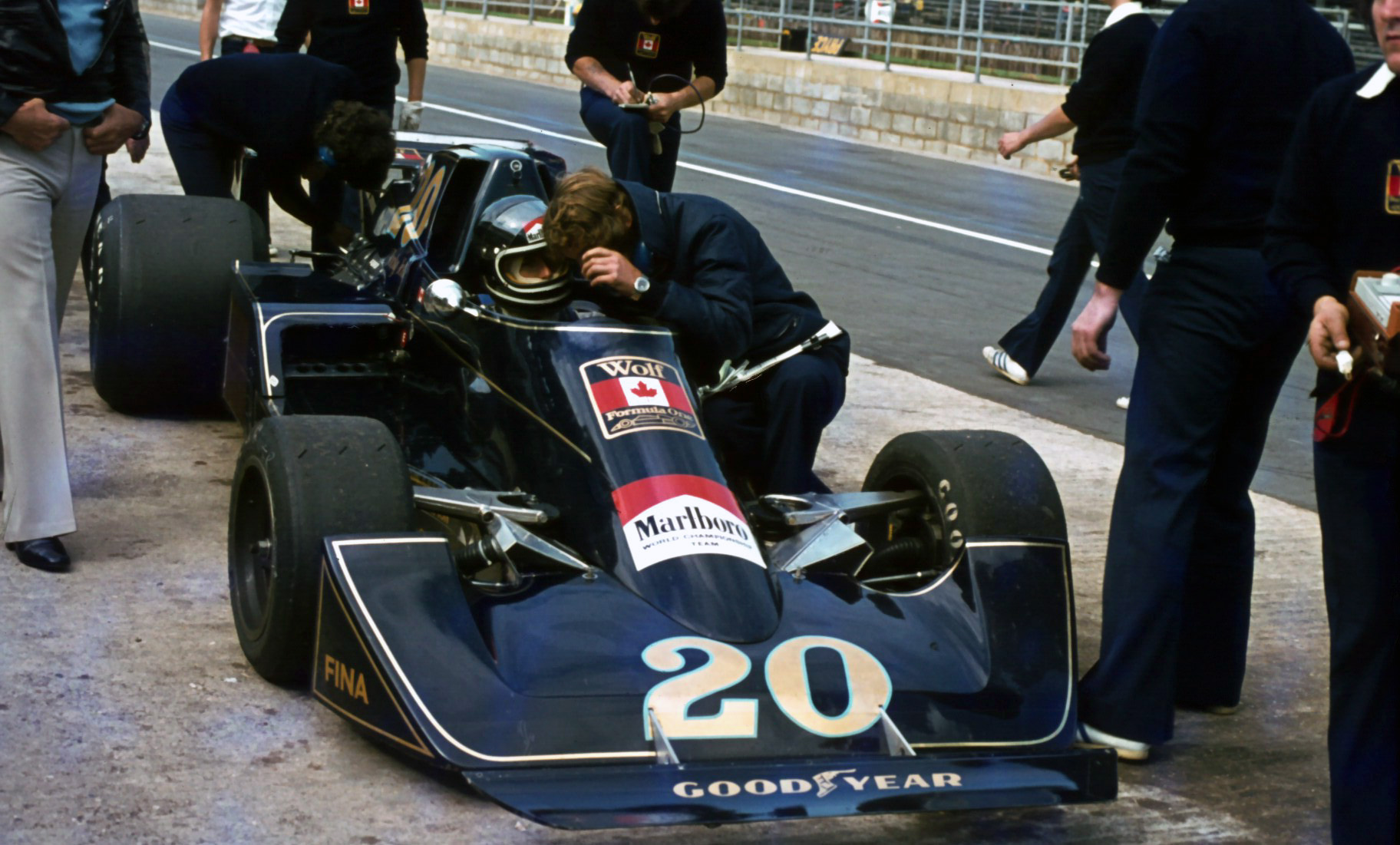 Jacky Ickx, Wolf-Williams FW05 in Silverstone test 1976.